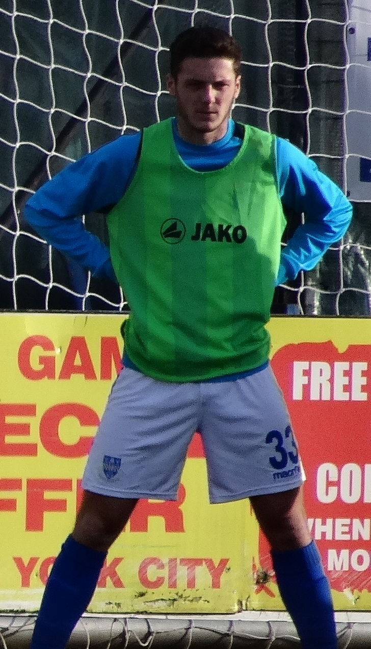 Tyler Garratt warming up for Eastleigh against York City at Bootham Crescent, York on 4 March 2017